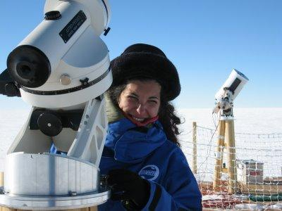 Picture of Merieme Chadid